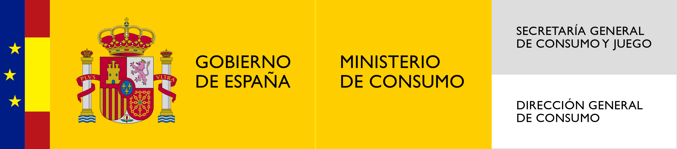 Directorate-General for Consumer Affairs